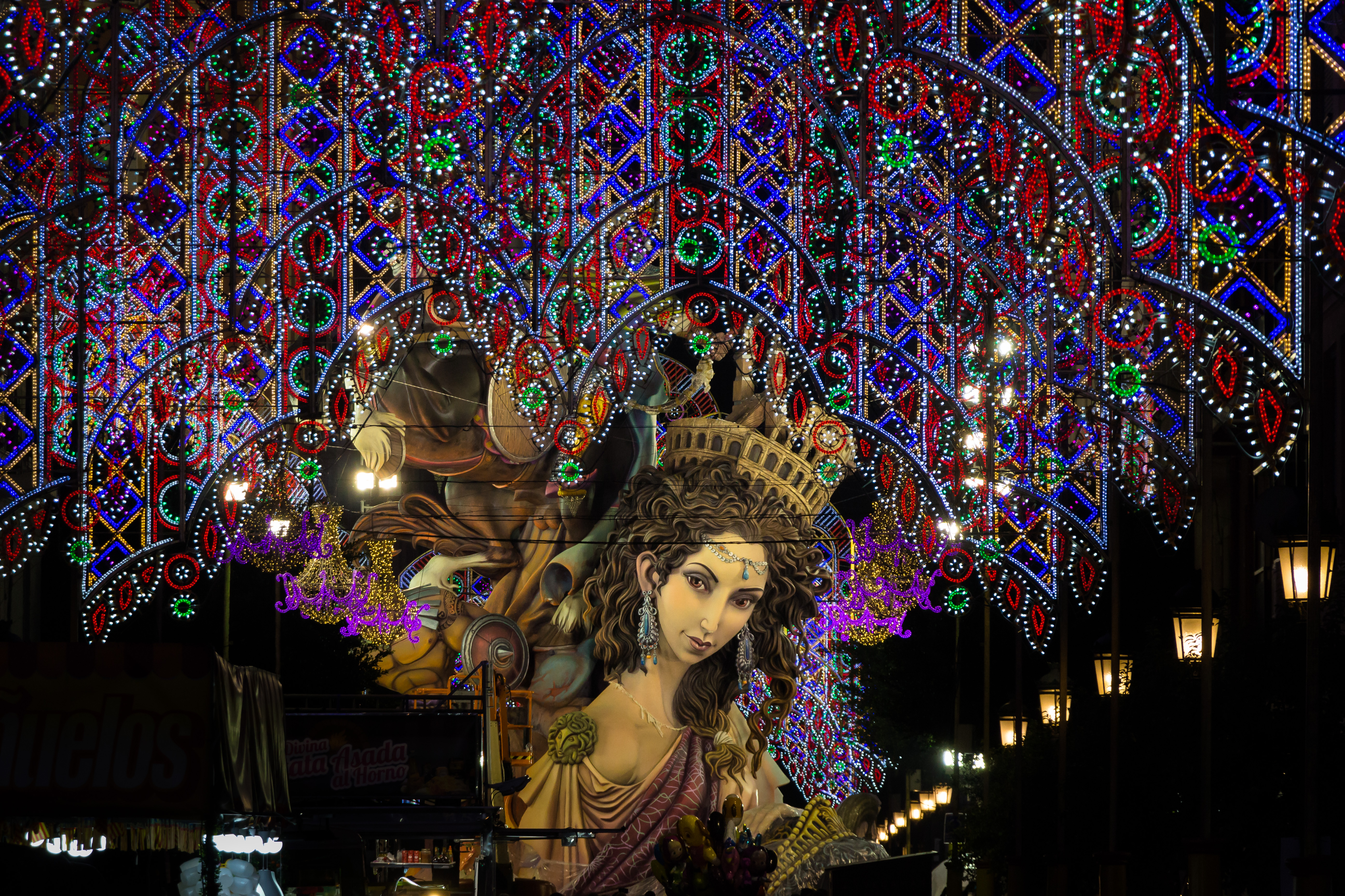 For some Fallas (like many in Russafa area), lighting on the streets is almost as important as the monument itself. This is a photography of a Folklore festival in Spain (Wikidata id Q1143768).